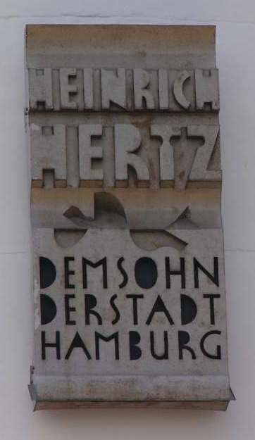 Plaque at the wall of Heinrich-Hertz-Turm, Hamburg, Germany.